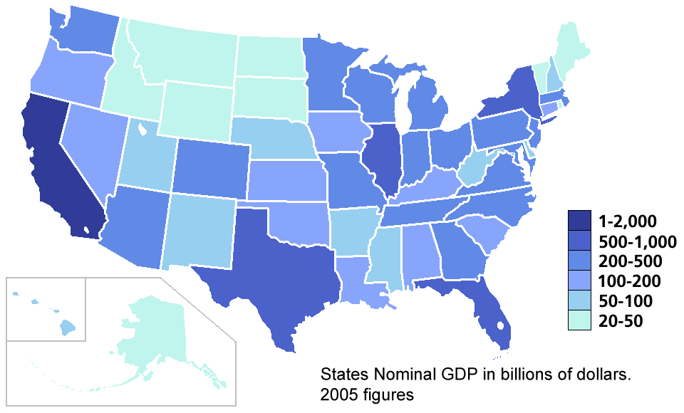 US states GDP in billions of dollars as listed on List of U.S. states by GDP (nominal), 2005 figures. See also: 2004 map